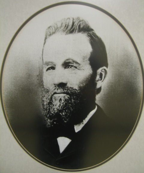 Photograph of photo of Sebastian Kronenwetter (founder of Kronenwetter, Wisconsin and former Wisconsin State Assemblyman